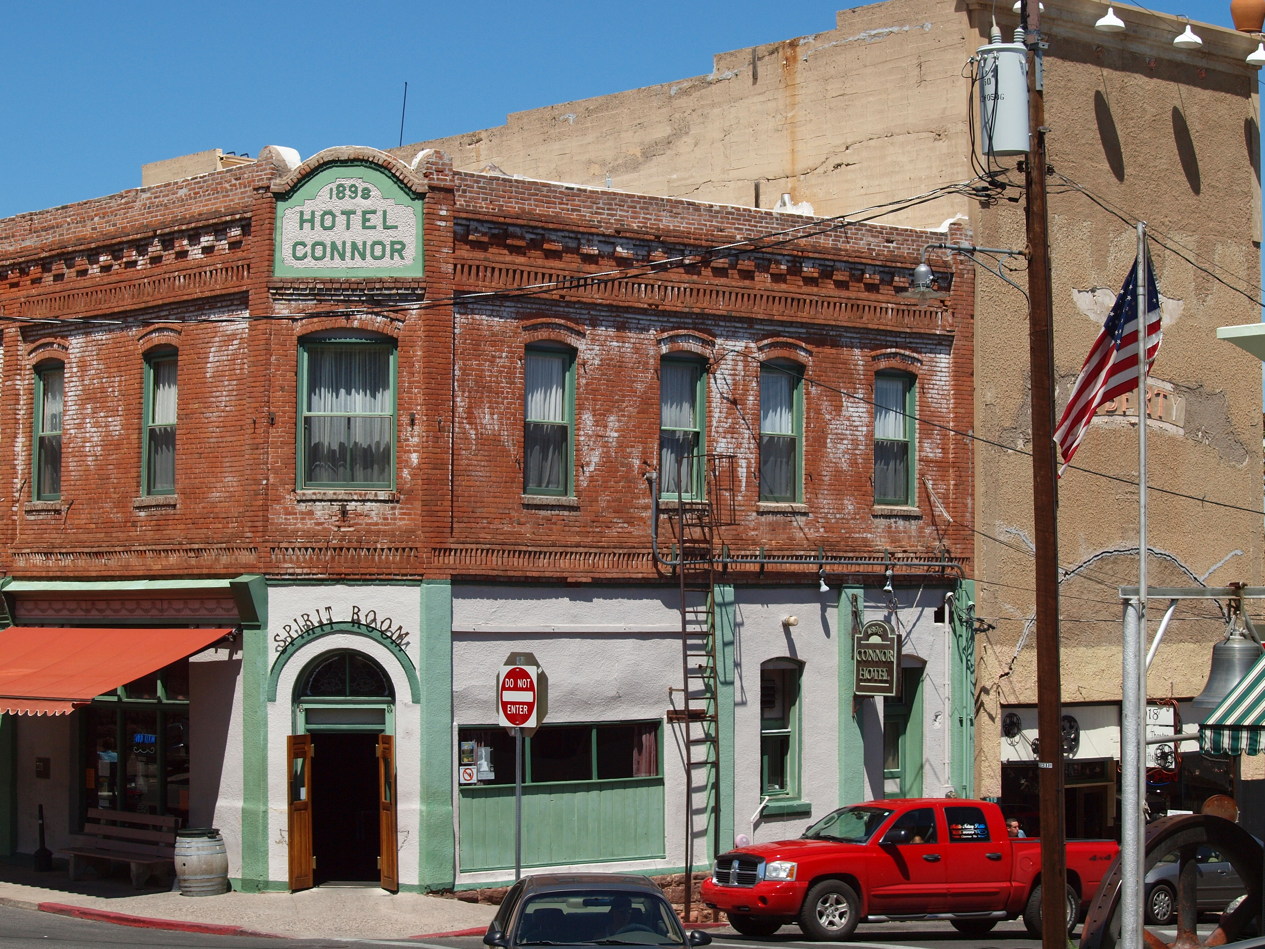 Jerome Historic District